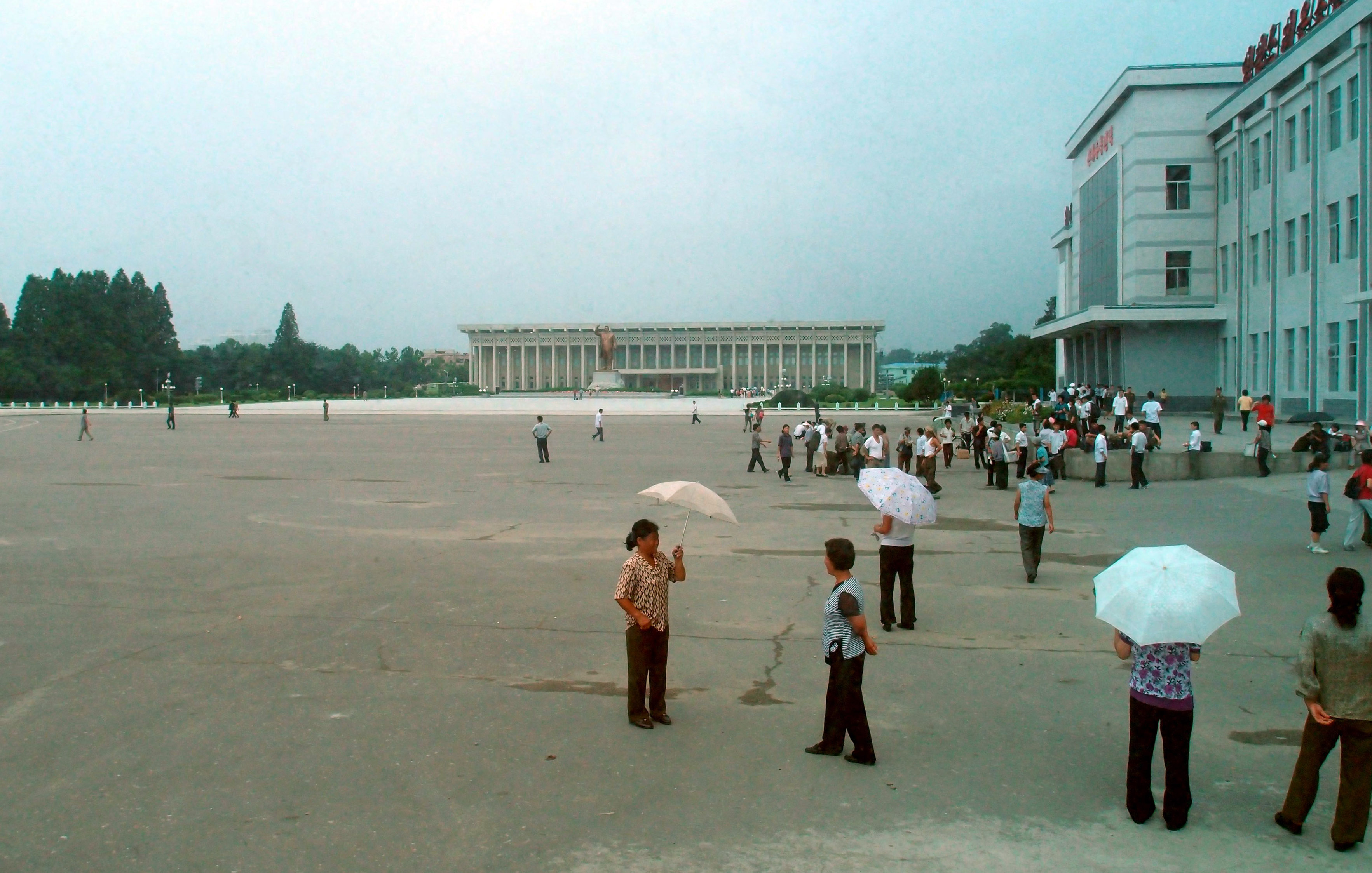 Large square in the centre of Sinuiju, in front of the railway station, with statue of Kim Il Sung